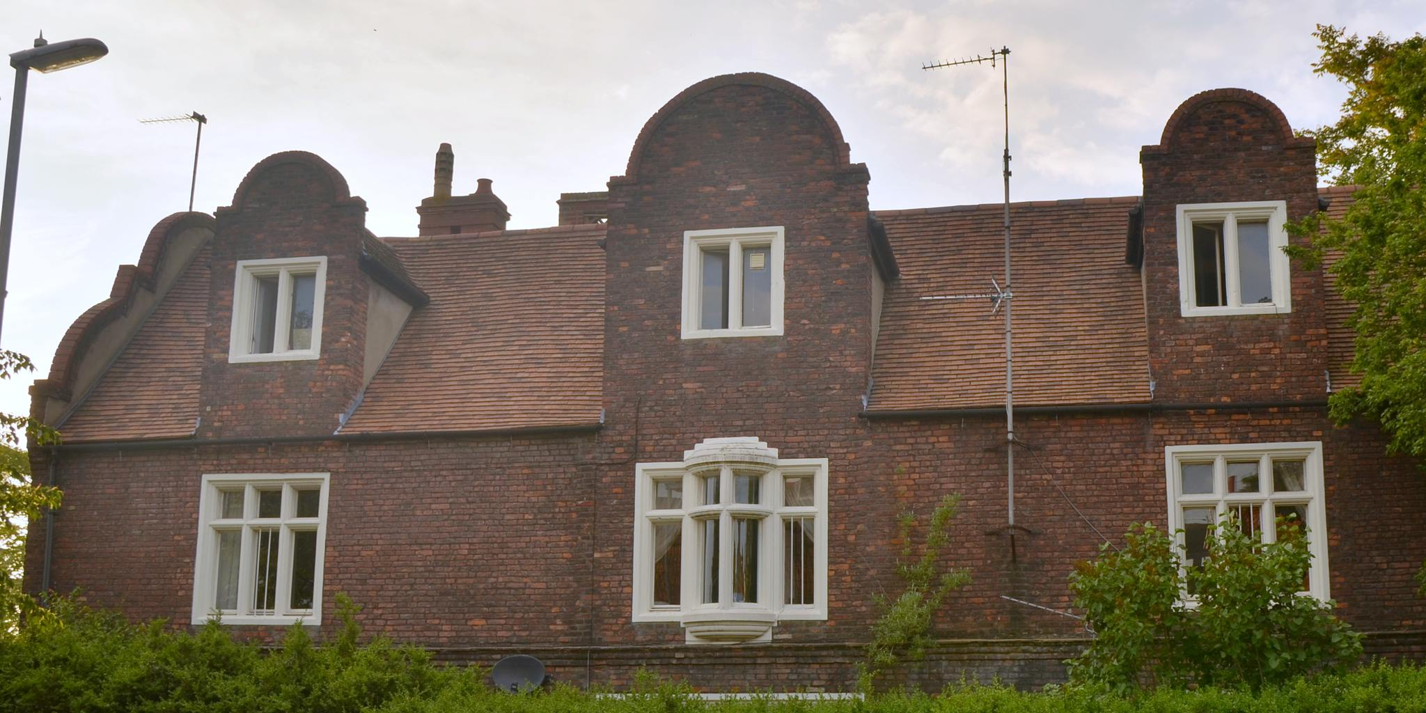 Front view of Chesterton Hall in June 2018.